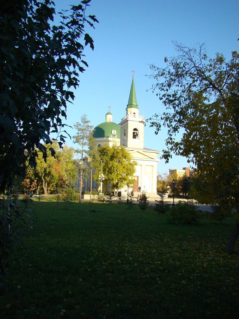 Nicholas church in Omsk